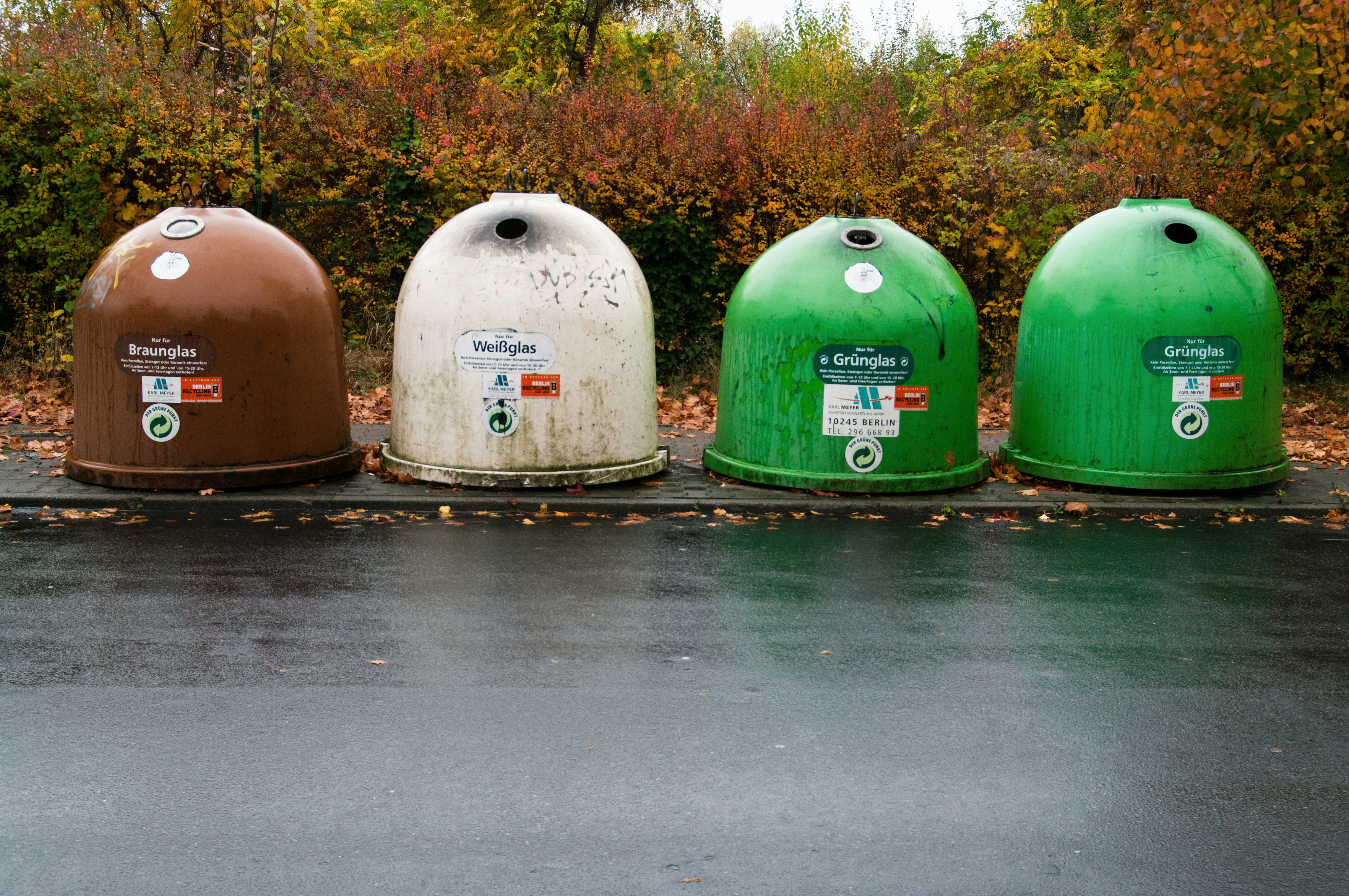 Southwest Berlin in Autumn